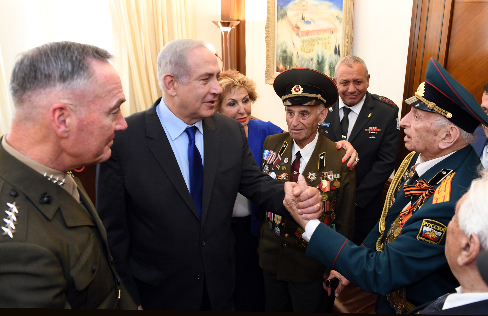 Chairman of the Joint Chiefs of Staff, General Joseph Dunford, meets with Israeli Prime Minister Benjamin Netanyahu in his office in Jerusalem, and then tours Yad Vashem Holocaust Museum and lays a wreath at the Hall of Remembrance in memory of the victims of the Holocaust.